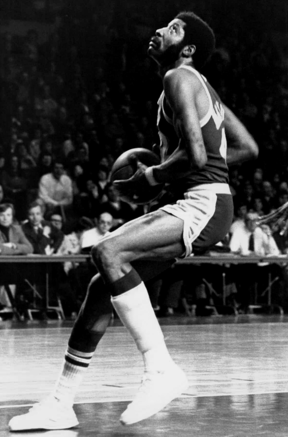 Professional basketball player Connie Hawkins